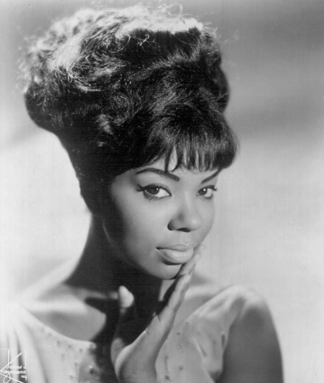 Photo of singer Mary Wells.